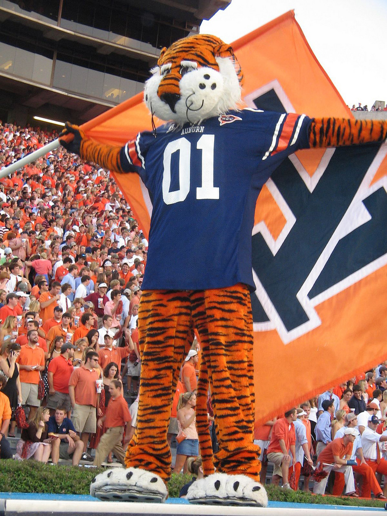 Auburn University's mascot, Aubie, will compete throughout football season with 15 other college mascots as part of the Capital One All-America Mascot Team. Full story...